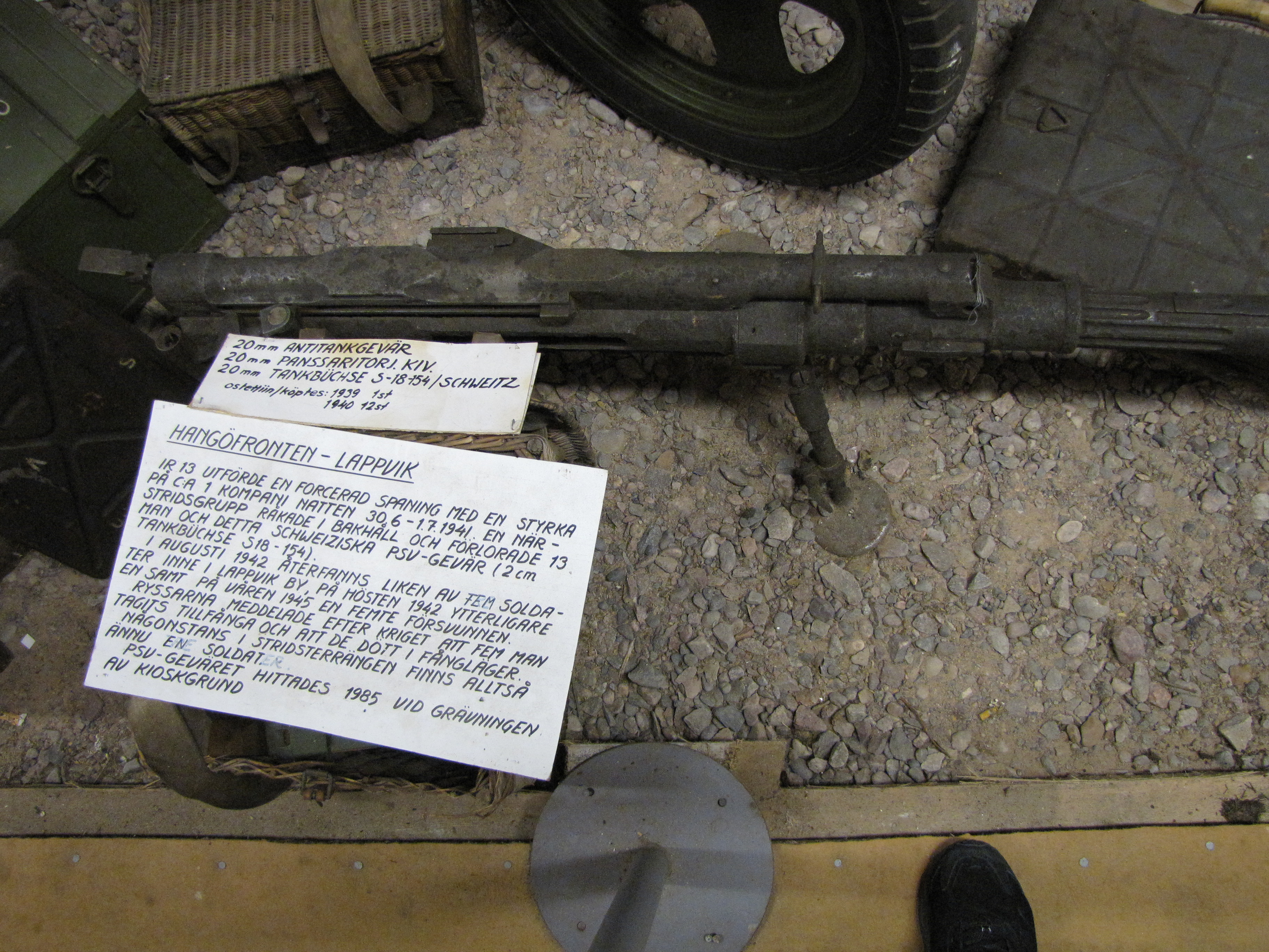 Solothurn S-18/154 anti-tank rifle in Hanko Front Museum. A variant of S-18/100, this rifle was one of twelve purchased by Finland from Switzerland. The weapon was used by Finnish infantry regiment 13 and lost early in Continuation War on the night between 30.6-1.7.1941 in Hanko front. Found in 1985 during construction work.